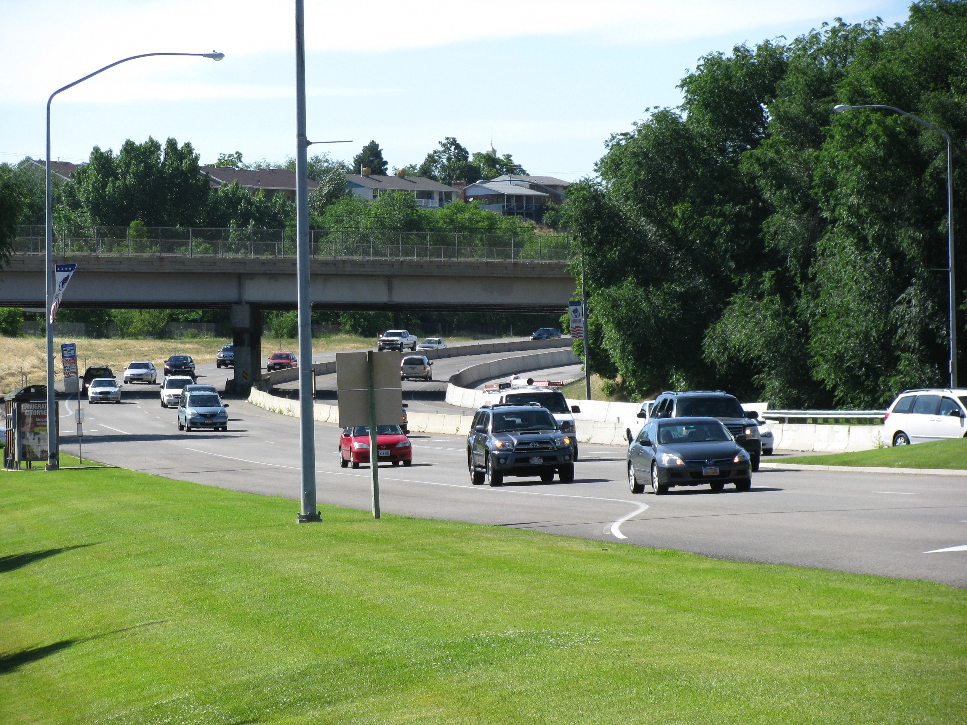 Looking north along University Parkway (Utah State Route 265). The Provo/Orem border is just southeast of the overpass (Carterville Road). Also the future route of the Provo Orem UVX.